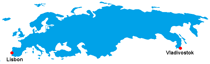 Common European area from Lisbon to Vladivostok